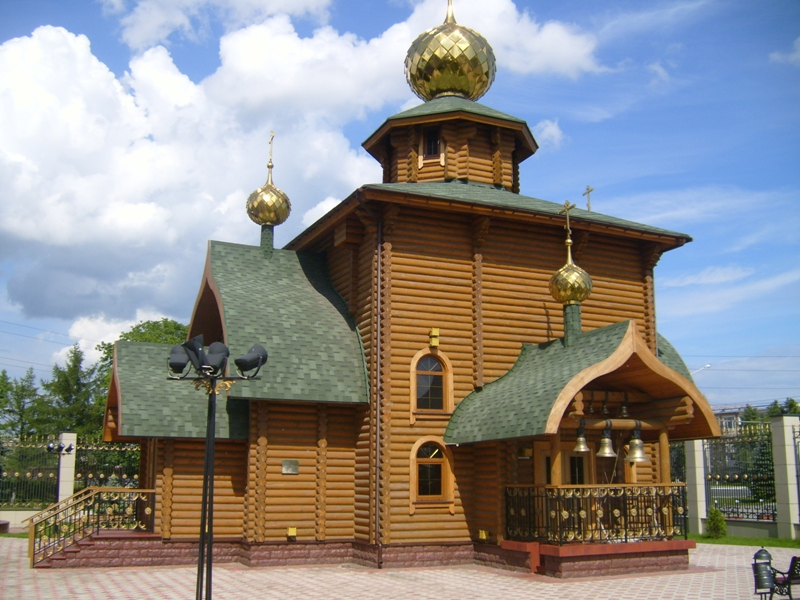 Church of Prince Volodymyr